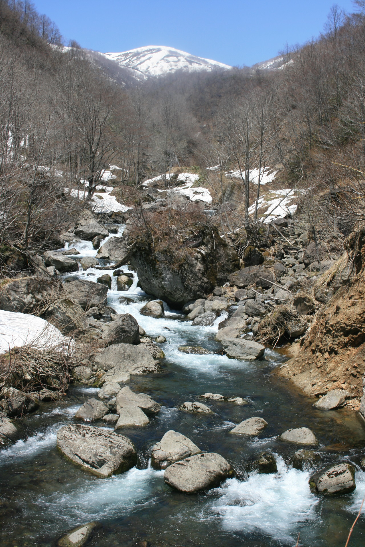 Itoshiro river